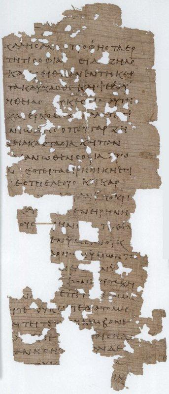 page of Papyrus 100 with text of James 3:13-4:4